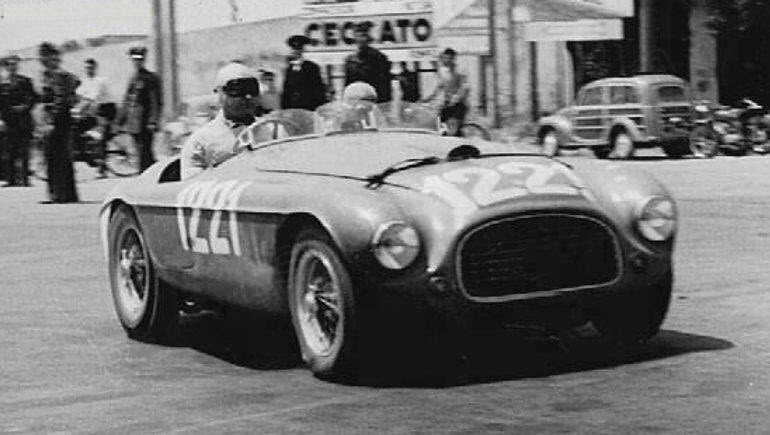 Dorino Serafini and Ettore Salani towards win at Coppa Toscana on 4 June 1950 in the 1950 Ferrari 166 MM Touring Barchetta s/n 0038M.[1]